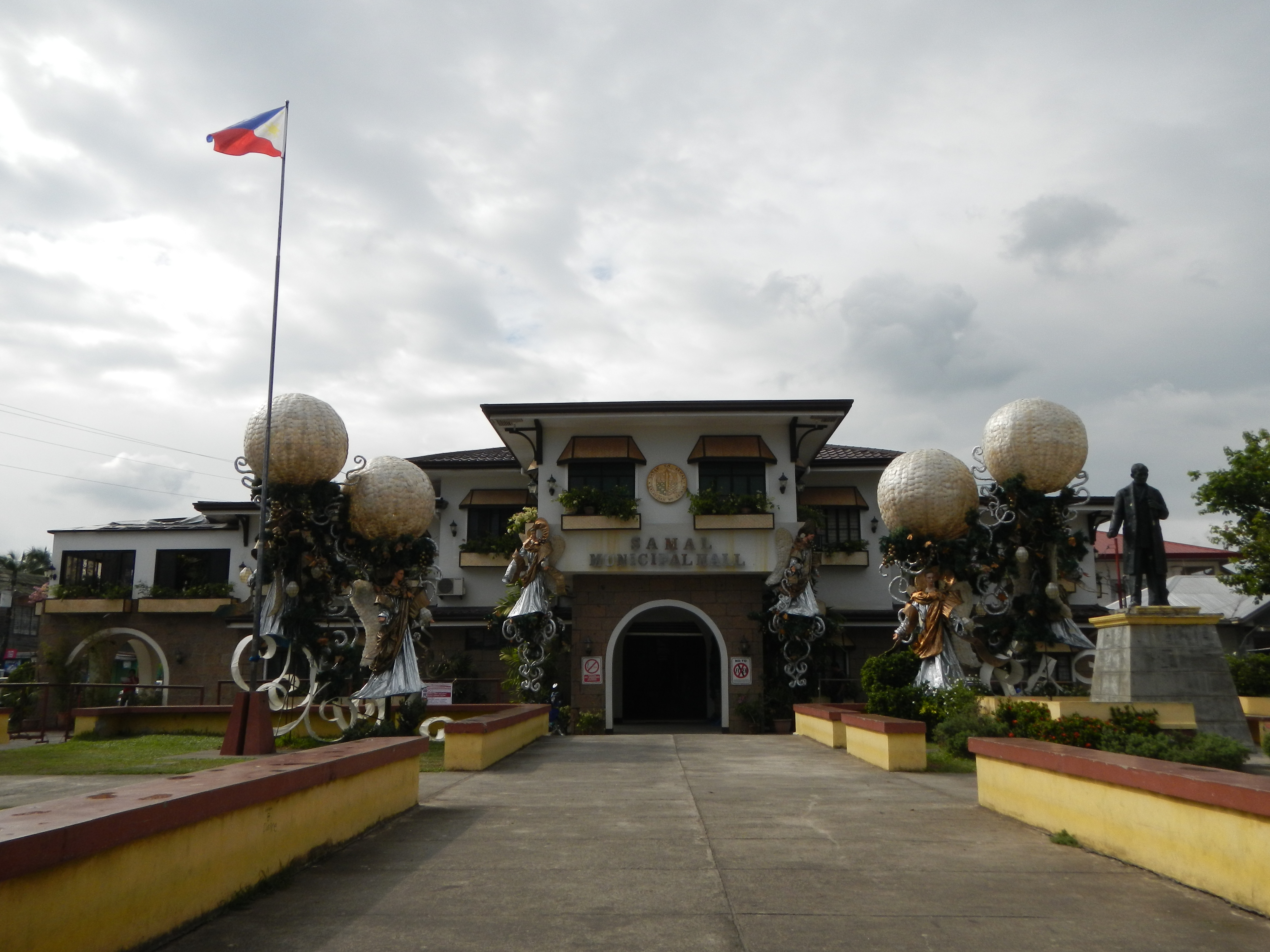 Samal, Bataan[1][2]Eastern side of Bataan, Samal is bounded by the municipalities of Orani, Abucay, Mt. Natib and Manila Bay. Its total population is 45,677 with main products: palay, corn, vegetable, fruits, rootcrops, coffee and cutflowers, livestock, poultry and aquatic resources such as shellfish, crabs, prawns, shrimps and different species of fish. Coordinates: 14°46'3"N 120°29'8"E[3][4][5]